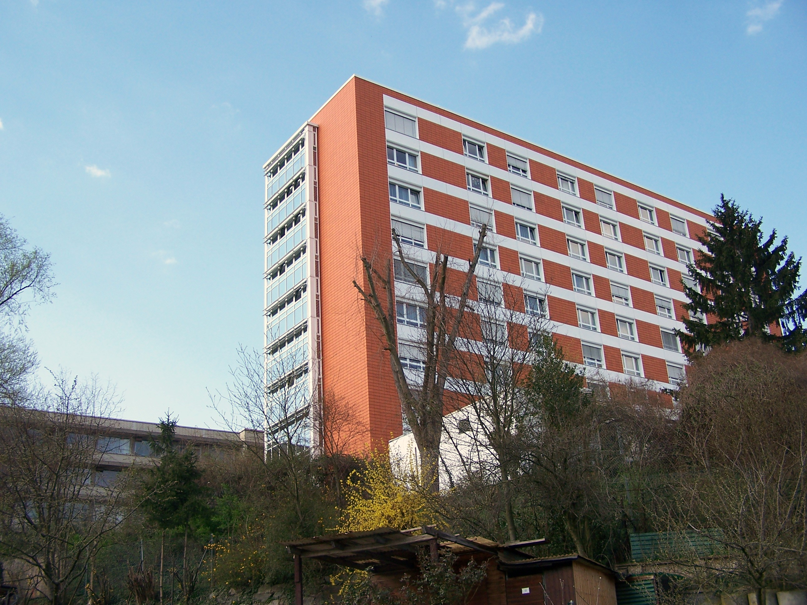 Hufeland Retirement Home in the borrough of Seckbach in Frankfurt, Hesse, Germany